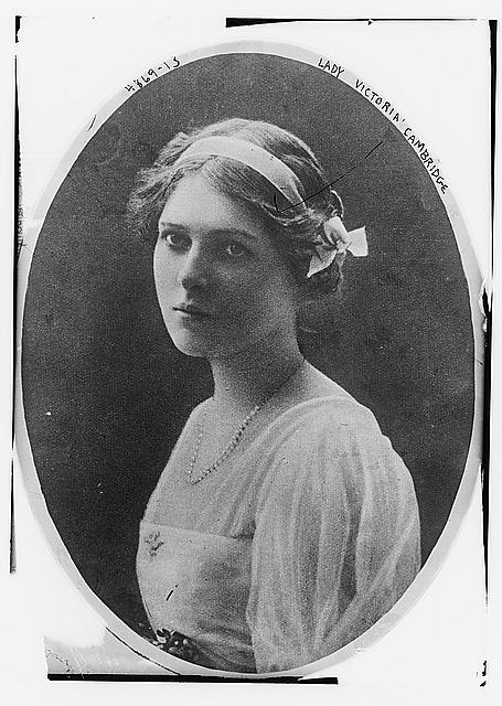 Lady Victoria Mary Cambridge, born Princess Mary of Teck and later Mary Somerset, Duchess of Beaufort (1897-1987)